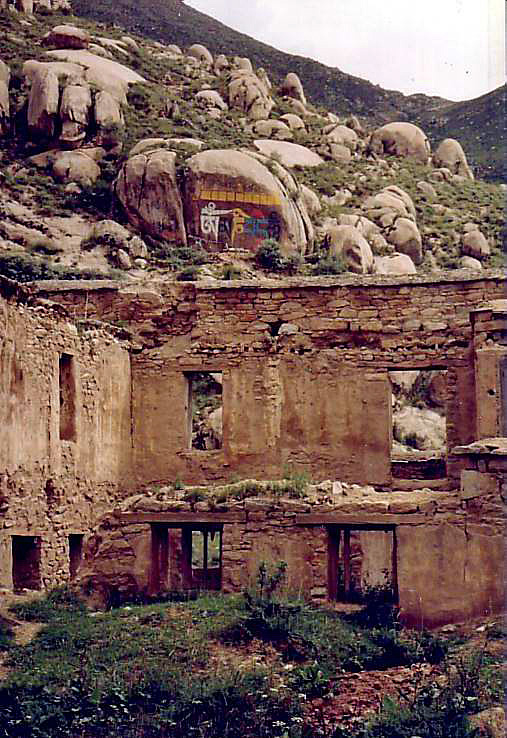 I took this photo myself in 1993. John Hill 03:14, 29 January 2007 (UTC)